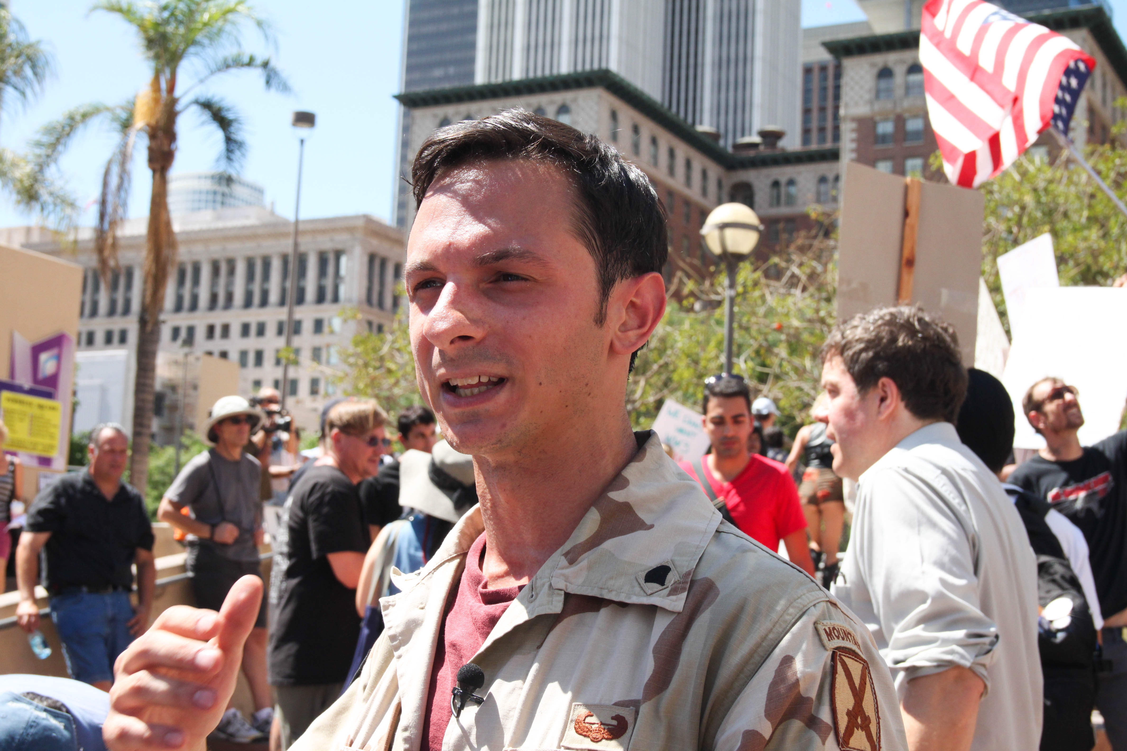 Syria Protest at Pershing Square in Downtown Los Angeles. Mike Prysner, the leading organizer with March Forward talking about his experience as a war veteran and talking about his opinions, "I went to war in 2003 being told there was this undeniable intelligence weapons of massive destruction had to intervene and protect the civilians' lives, but it all turned out to be a lie. 5000 soldiers died. Now this is similar situation... People don't want the war, and over 90% oppose it, so we want our voices to be heard." Photo by Xizi (Cecilia) Hua